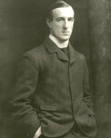 Thomas Scott-Ellis, 8th Baron Howard de Walden (1880-1946) in 1910.